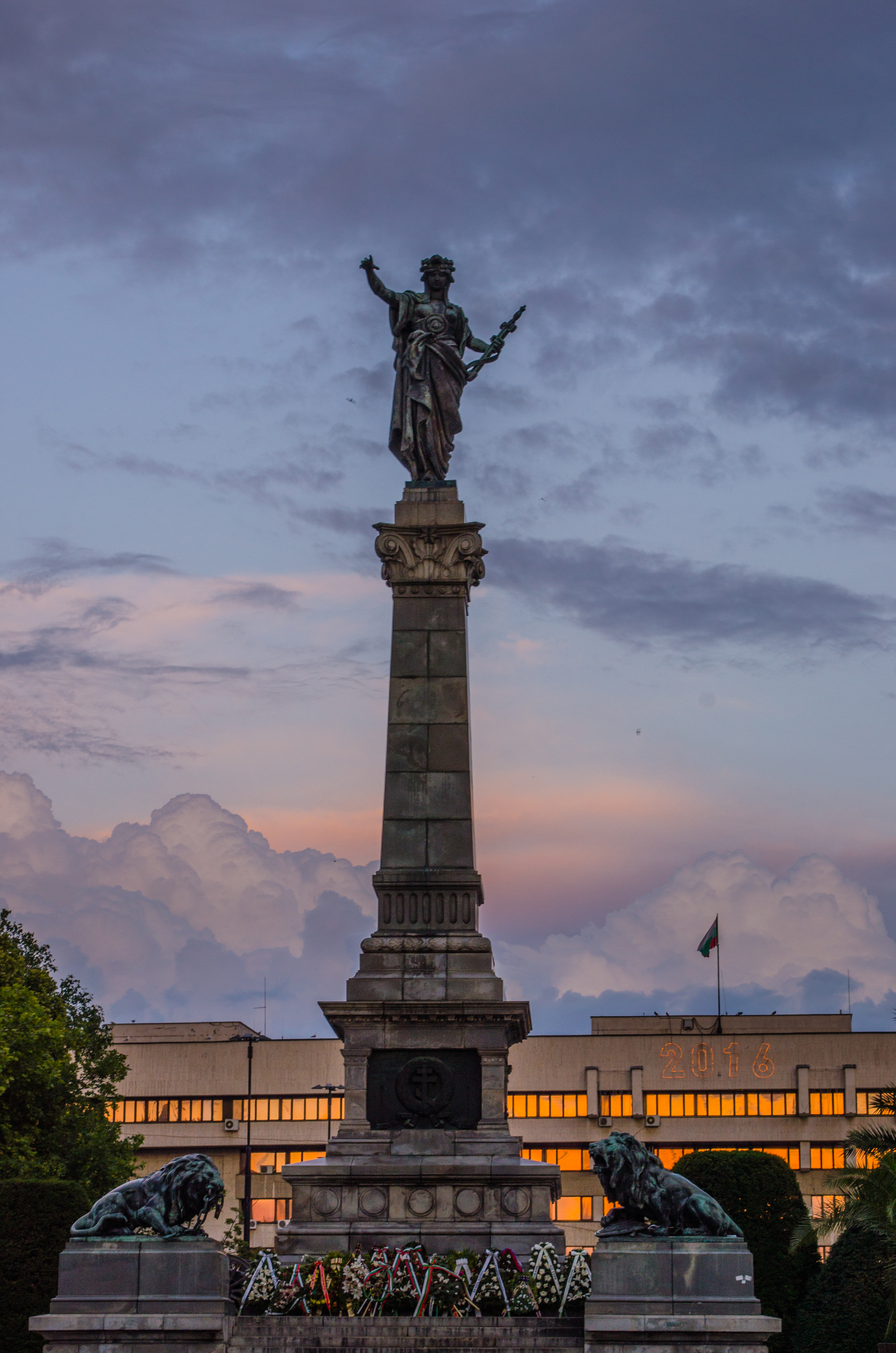 Monument of Liberty in Ruse